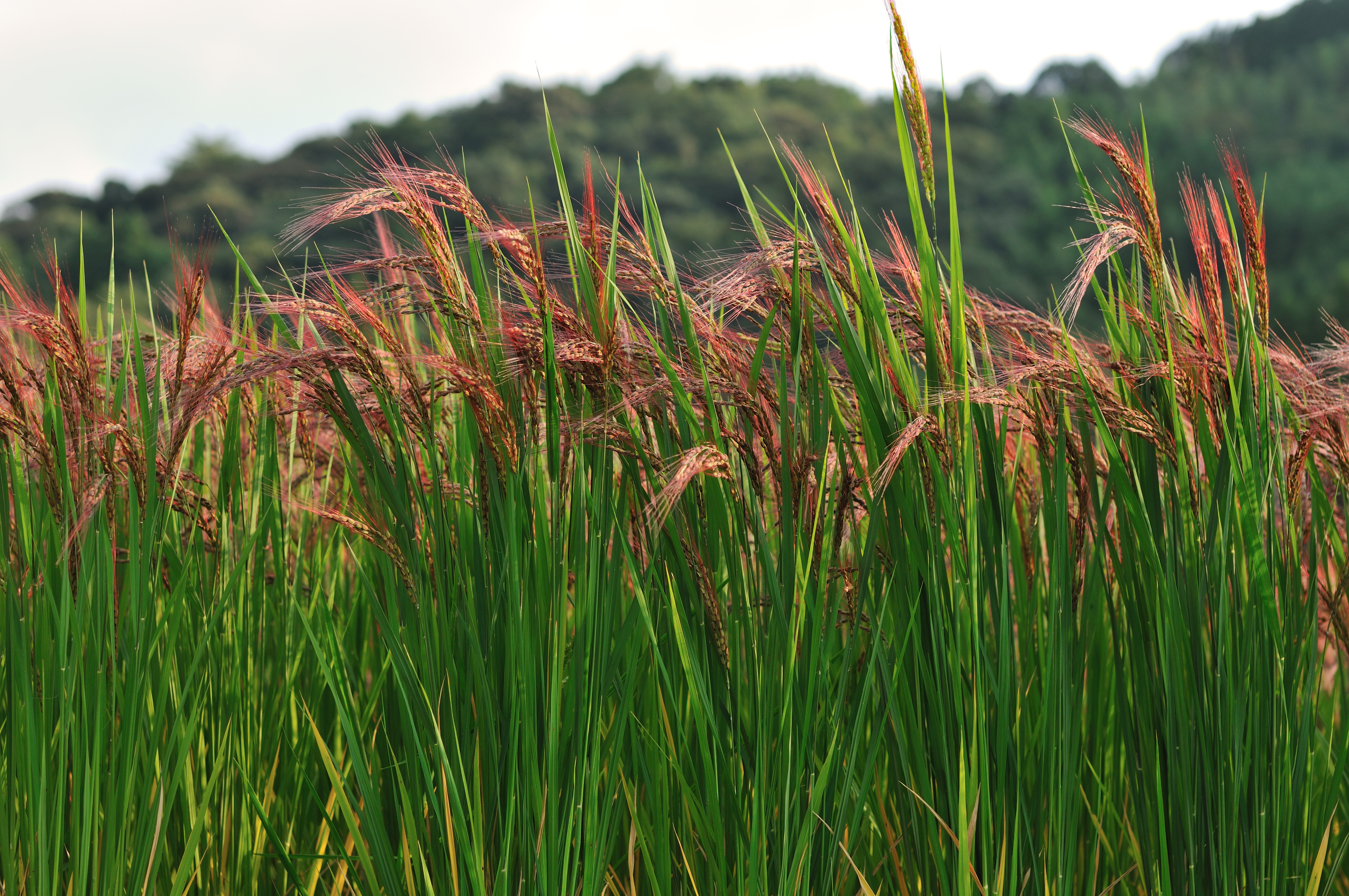 Red Rice Paddy field in Hoshino,Yame,Fukuoka Prefecture,Japan